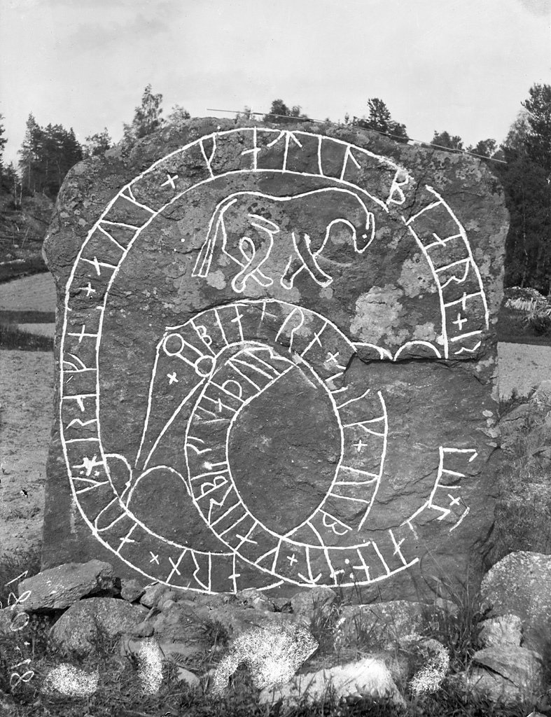 Rune stone (Sö 226) in Sorunda. The inscription says: "Björn and Vibjörn and Ramne and Kättilbjörn raised the stone in memory of Gerbjörn, their father".